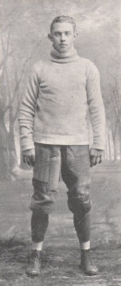 Pitt Panthers football coach J. A. Moorehead